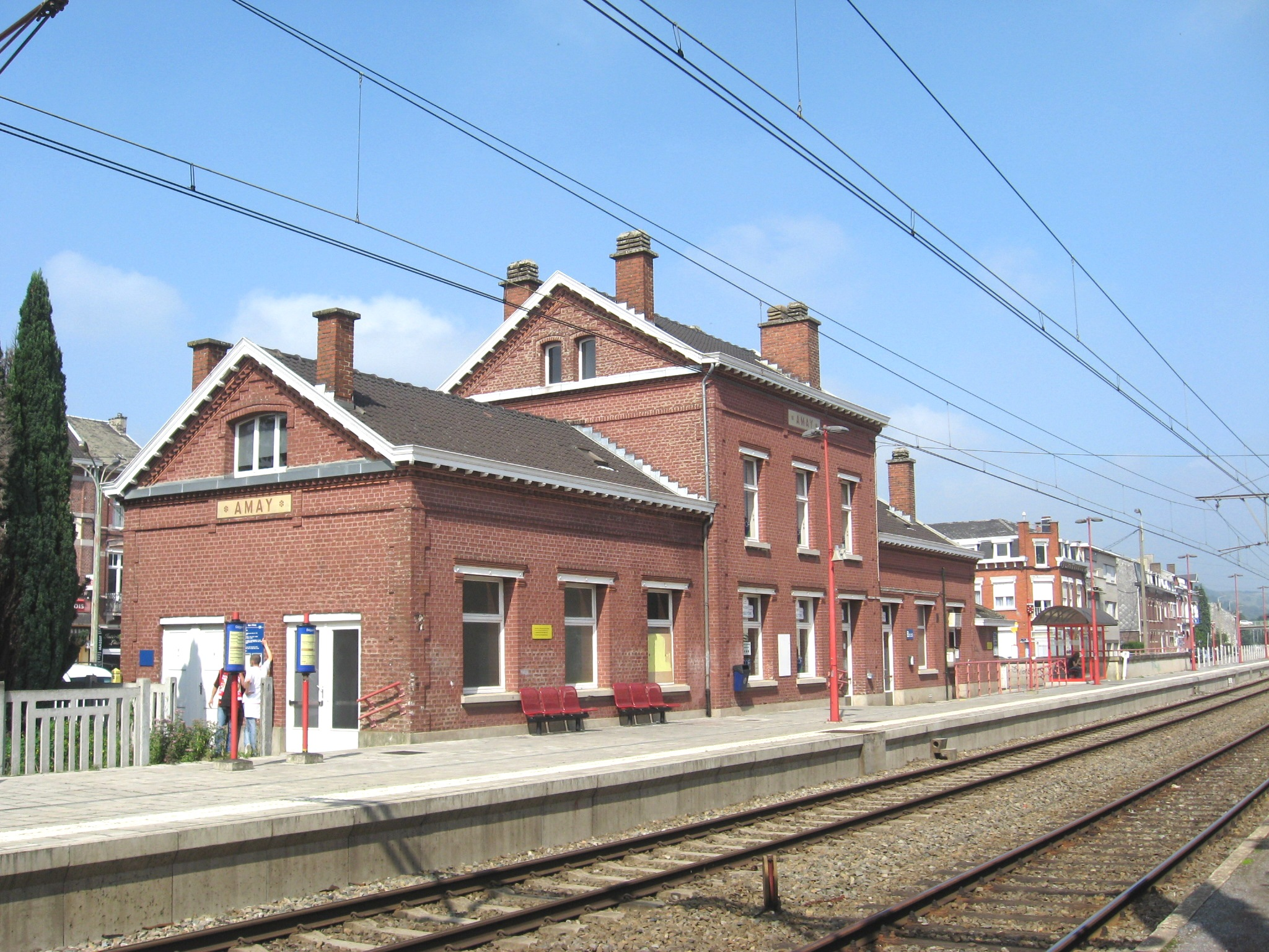 Train station of Amay, Liège, Belgium